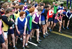 Start of the 'Wilson Run'